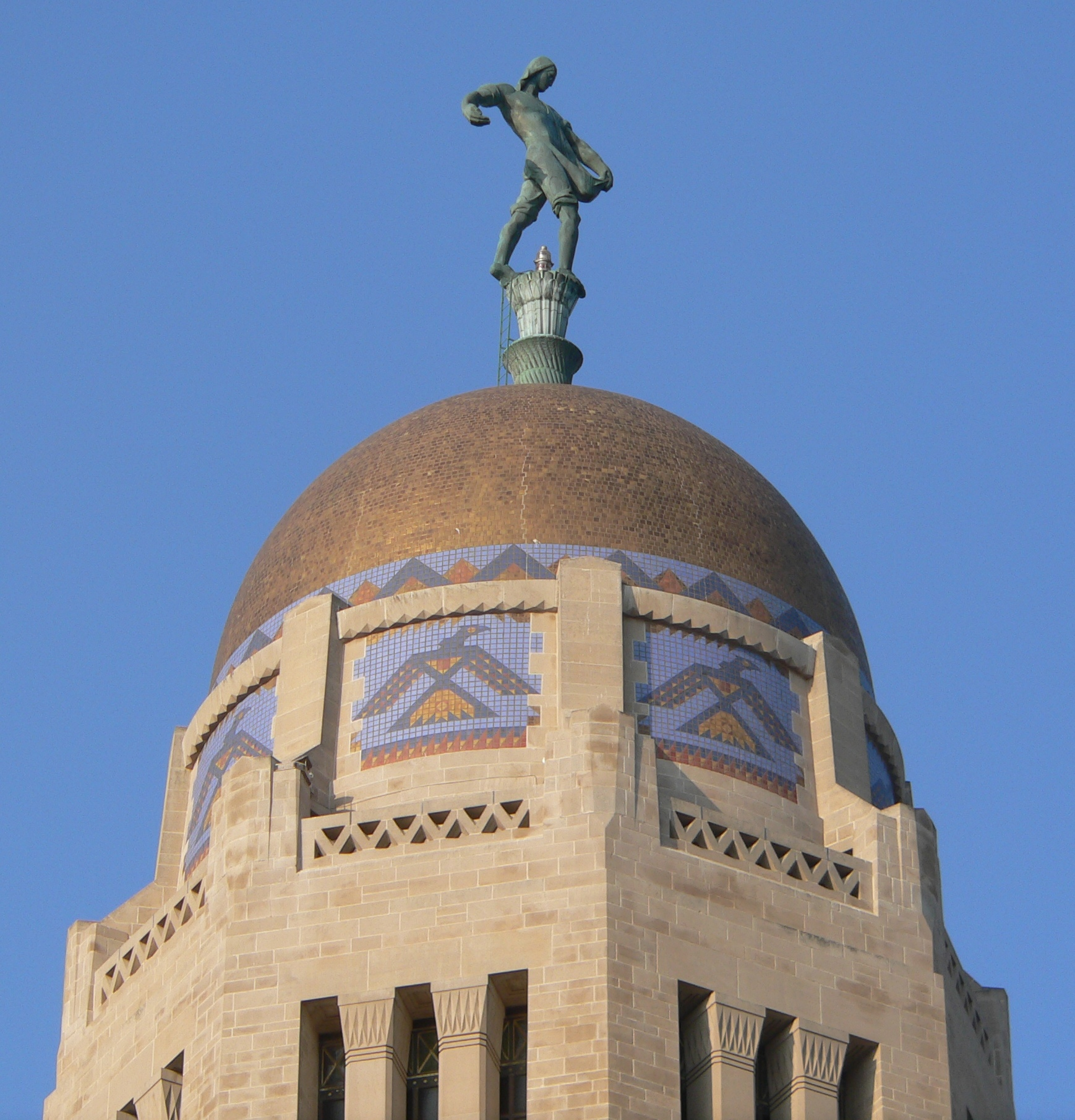 Dome atop Nebraska State Capitol in Lincoln, Nebraska; seen from the northeast.